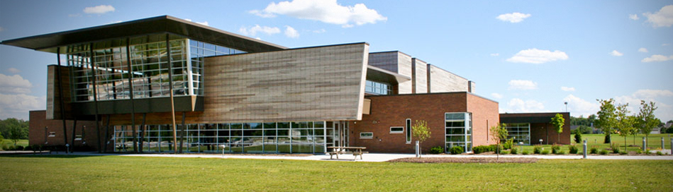 UHS' Fairbanks Hall